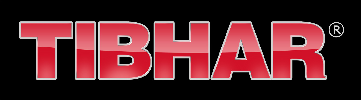 Logo of the TIBHAR company